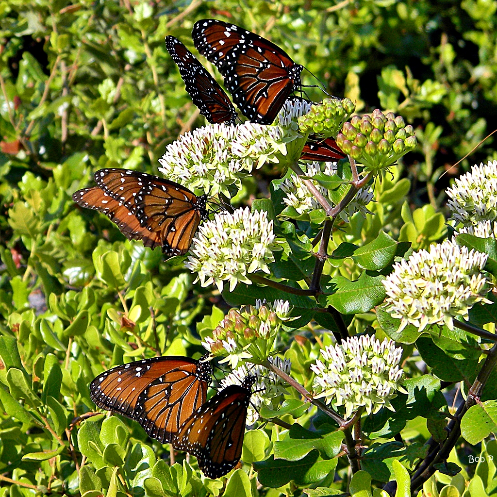 The rare, endemic Curtiss' Milkweed (Asclepias curtissii) hosting a Queen Butterfly convention in the Florida scrub! I had gone to photograph my favorite scrub plant yesterday when I found it covered by as many as 7 nectaring Danaus gilippus! This species is involved in Müllerian mimicry with the Viceroy, several of which were floating about in a nearby willow marsh.